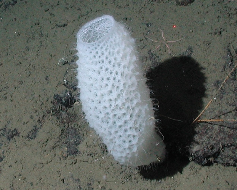 Euplectella aspergillum at 2572 meters water depth. California, Davidson Seamount